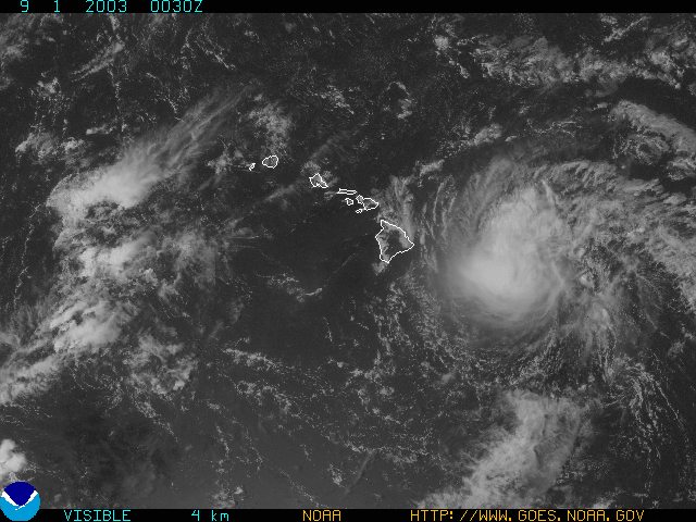 Hurricane Jimena approaching Hawaii on September 1, 2003